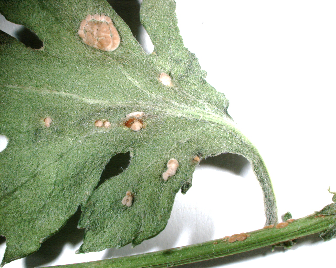 Pustules caused by chrysanthemum white rust, Puccinia horiana, on the lower leaf surface and stem of an infected chrysanthemum